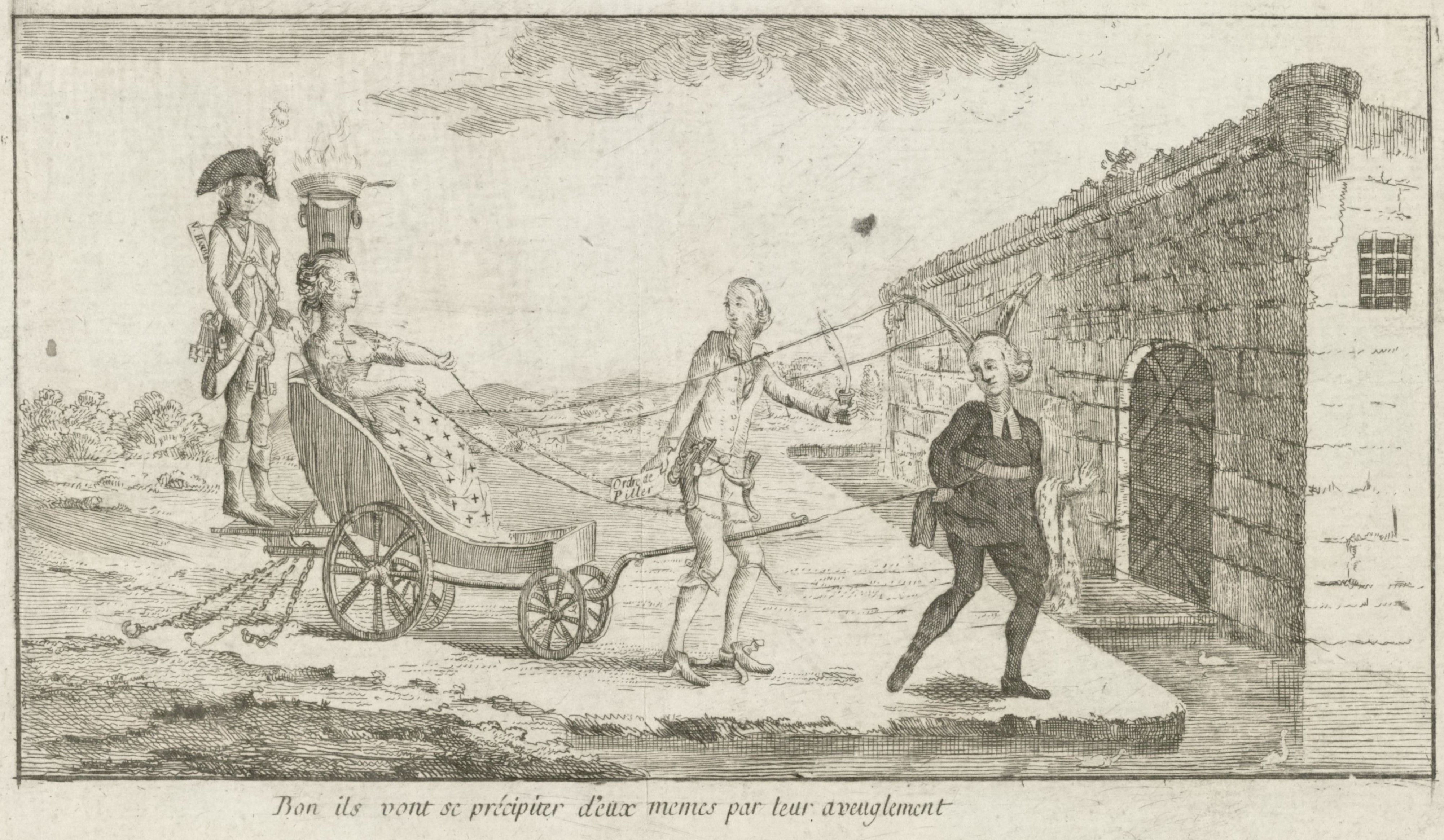 Cartoon of Brabant revolution